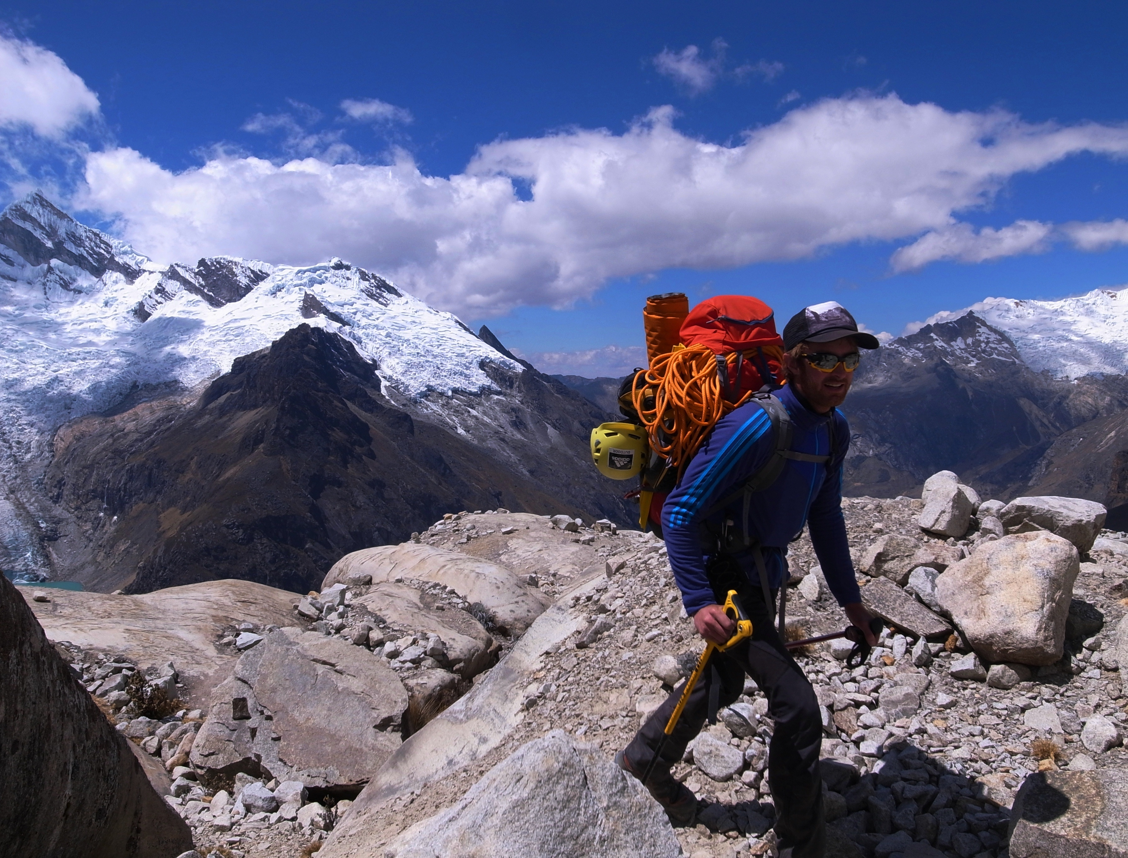 Climbing on his way to Alpamayo. Photo by: Kristoffer Szilas.